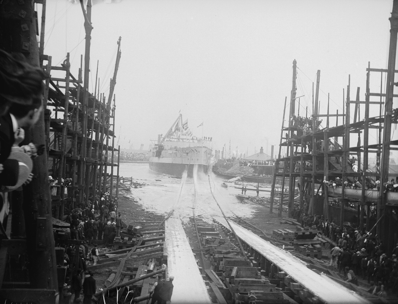 Photograph showing British battleship HMS Cornwallis being launched.